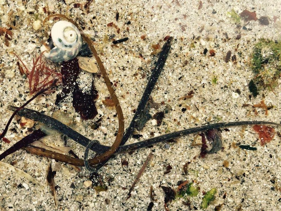 Three Nerophis lumbriciformis seen in a tidepool of Batz island (Britain, France).